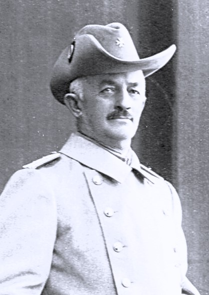 Ernst von Heynitz (1840-1912)